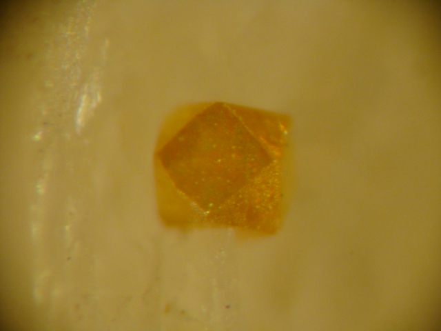 Another closer view of the Walfordite (0.7 mm)laying on white Alunite. This xx shows an attractive cube modification resembling a sort of papillon shape. Extremely difficult to immortalize without combine ZM, nevertheless it gives a hint of how looks like the single xx. From Wendy pit, Tambo, El Indio deposit, Elqui Province, Coquimbo Region, Chile - Fov: 2x2 mm